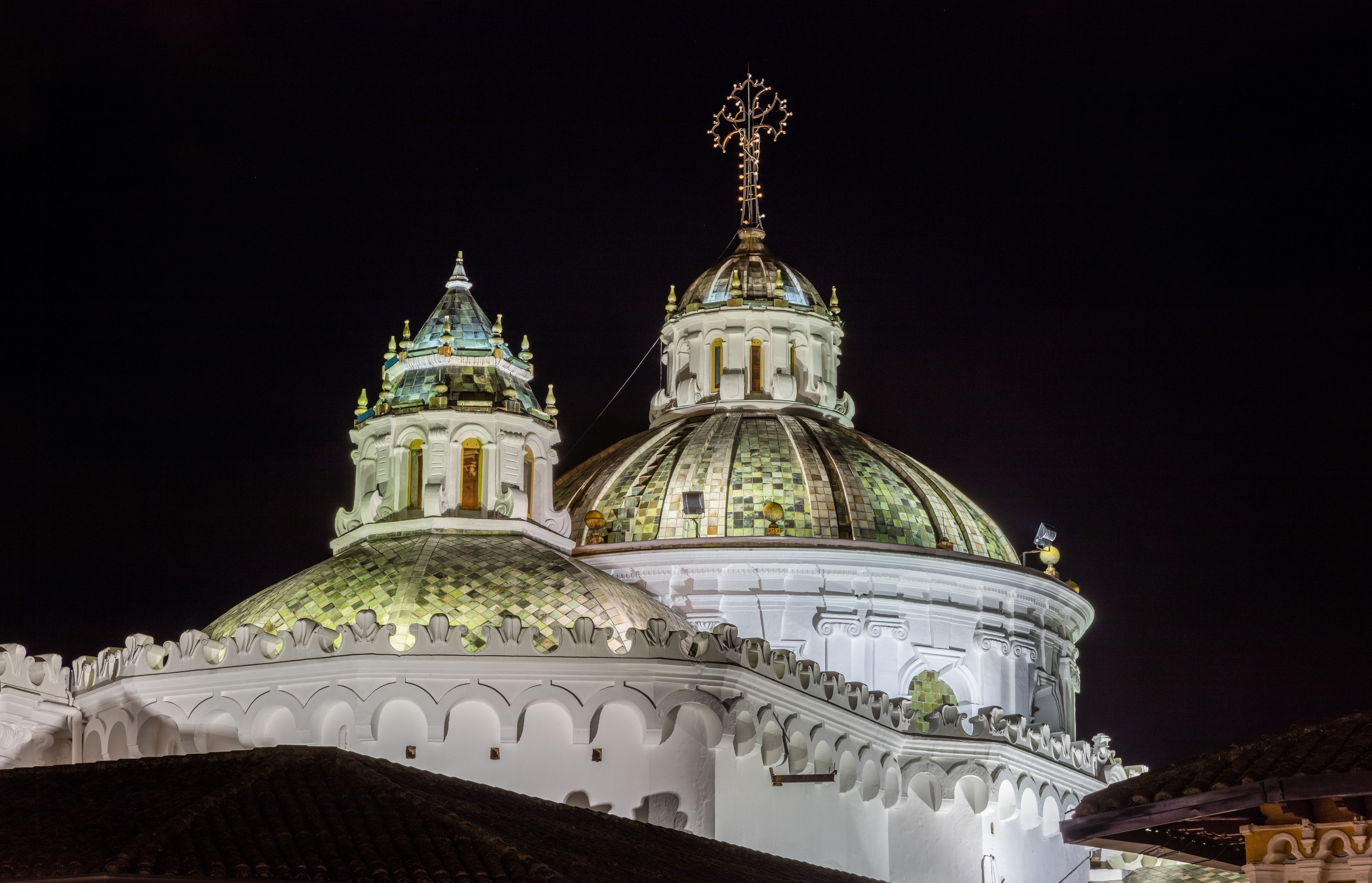 Church of the Society of Jesus, Quito, Ecuador